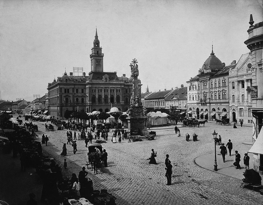 Town Hall and main square in Novi Sad in 1900